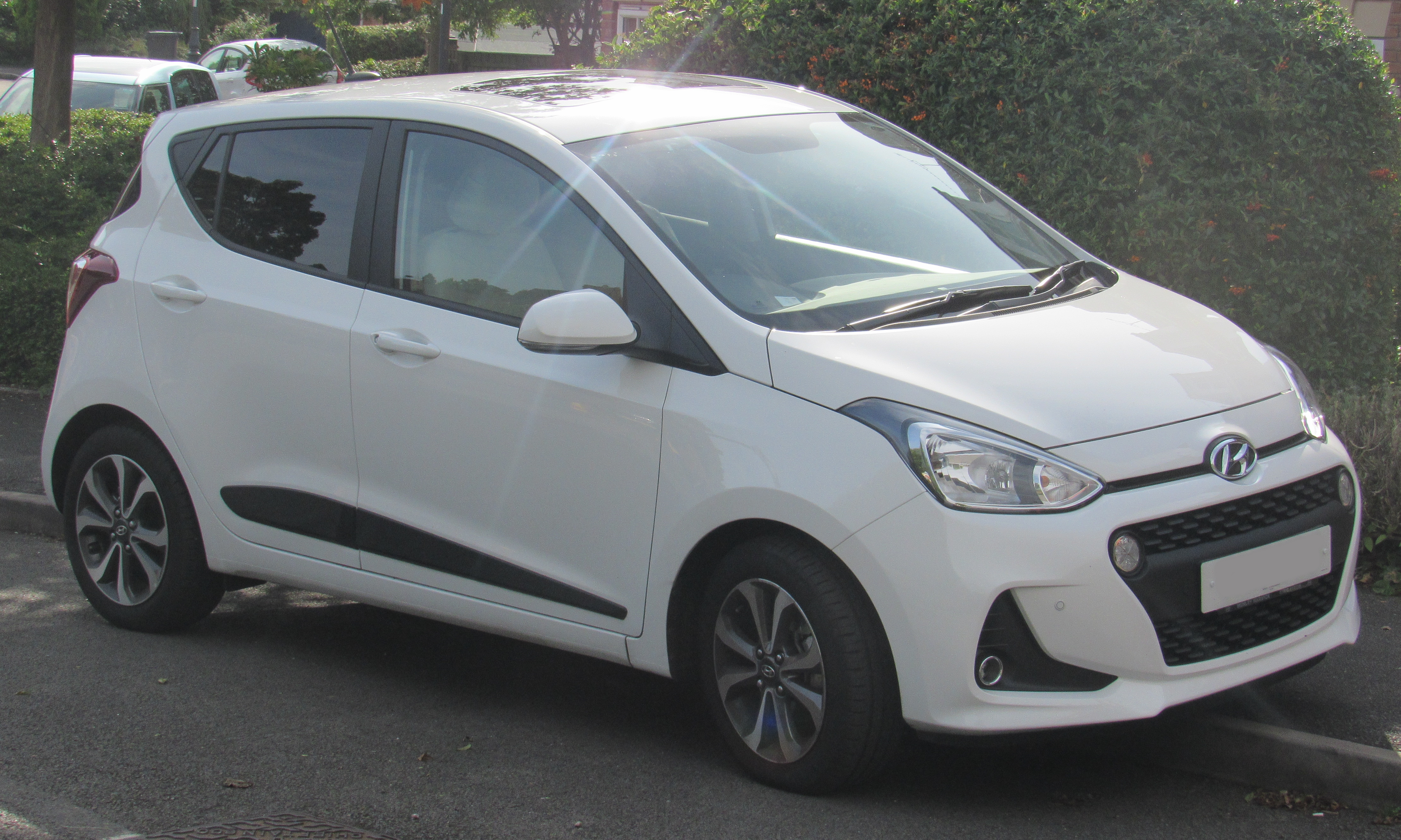 2017 Hyundai i10 Premium SE Automatic 1.2 Front Taken in Warwick.jpg